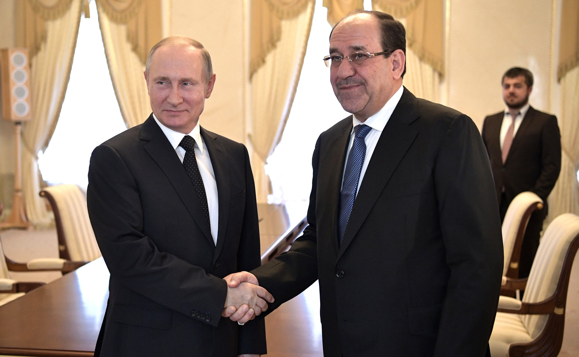 Vladimir Putin shaking hands with Nouri al-Maliki